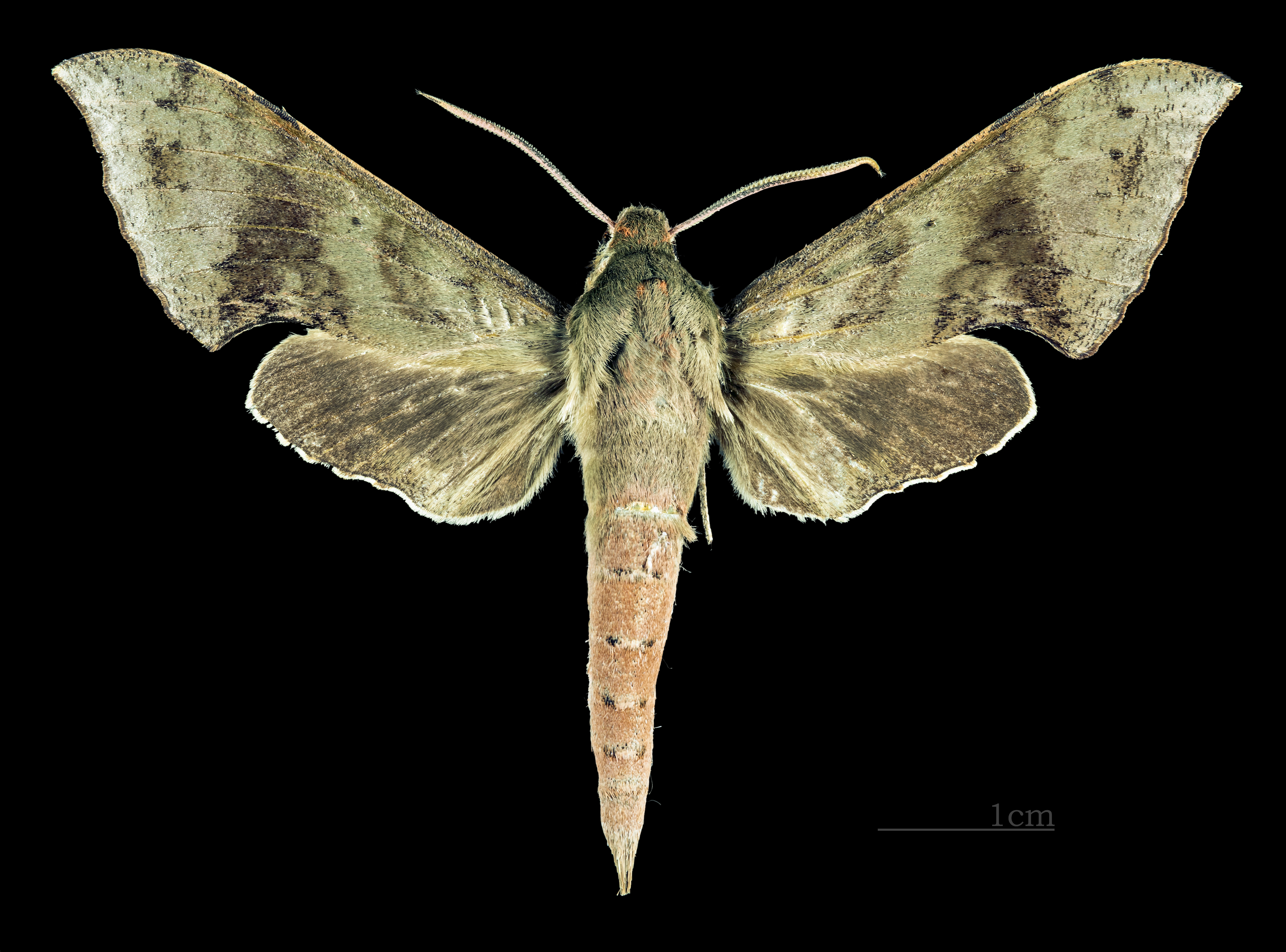 Xylophanes germen germen - Dorsal side